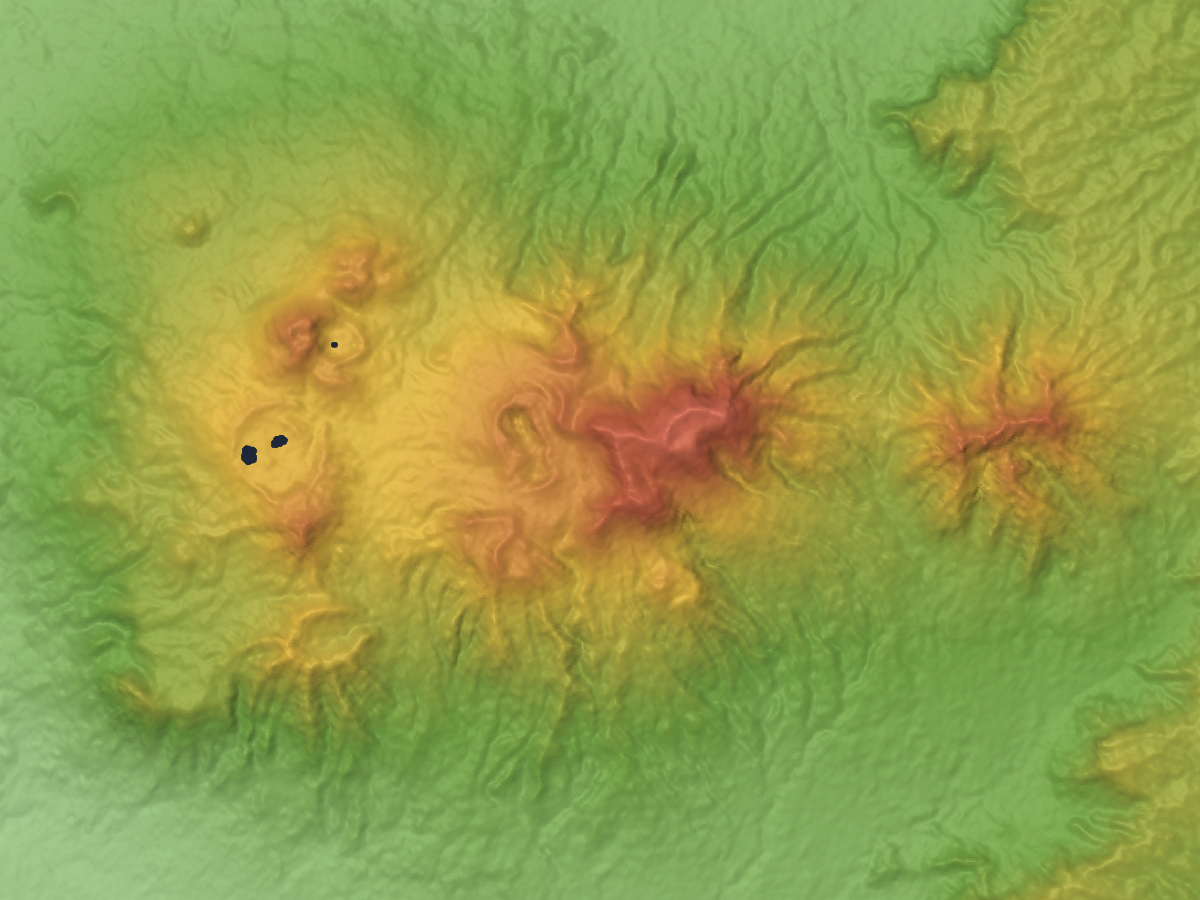 Central cones of Aso Volcano in Kumamoto Prefecture, Kyushu, Japan.